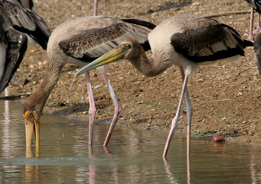 Mycteria leucocephala at Uppalapadu, Andhra Pradesh, India.